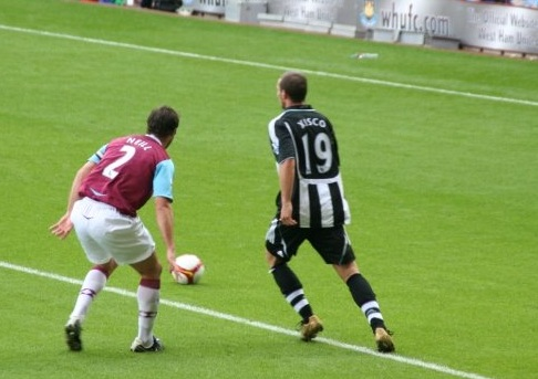 Francisco Jiménez Tejada